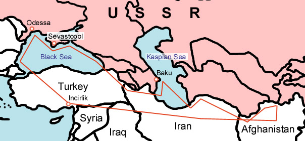 I drew this composite recon track which typically requires two separate missions--plumalley